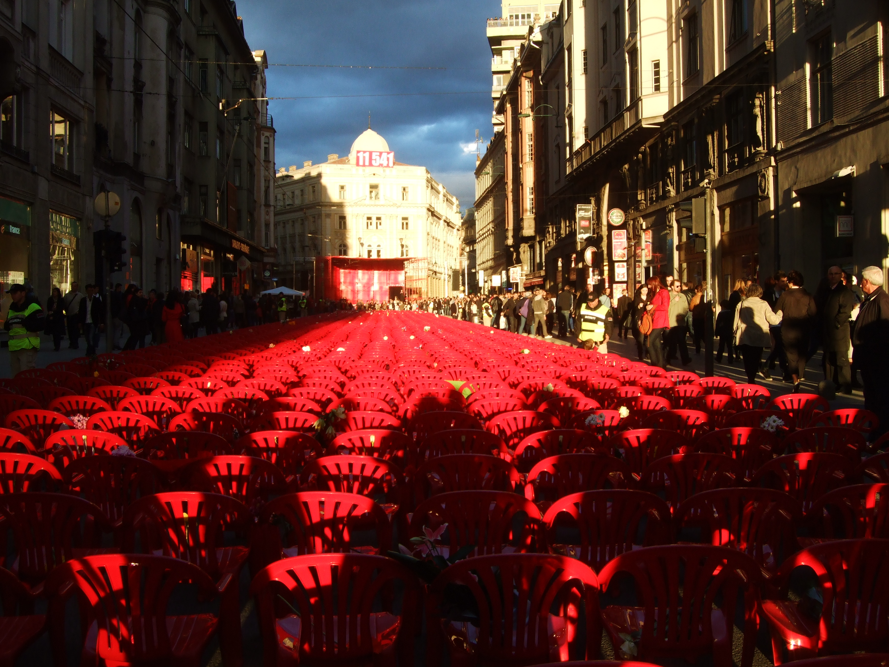 Sarajevo Red Line - chair installation used for the occasion of the 20th anniversary of Sarajevo Siege